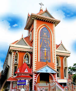 Basilica